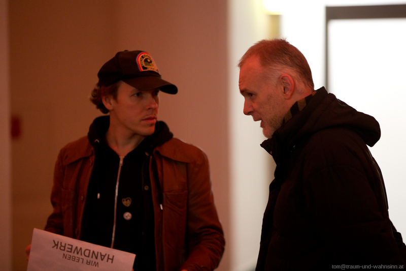 Johannes Grenzfurthner and Franz Ablinger (of monochrom) at the shooting of "Die Gstettensaga: The Rise of Echsenfriedl"